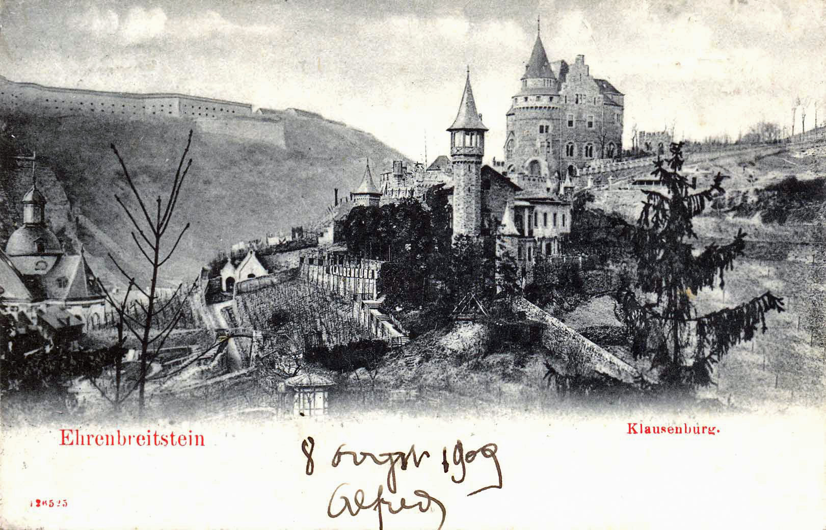 Klausenburg and Rheinburg in Koblenz